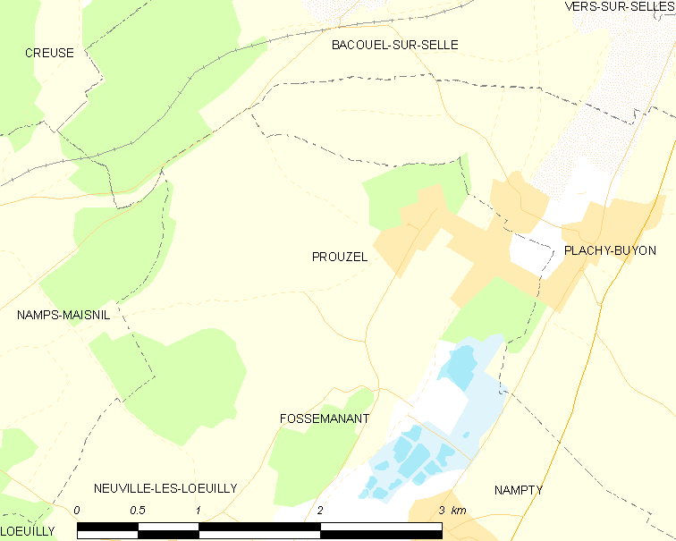 Map of French municipality Prouzel